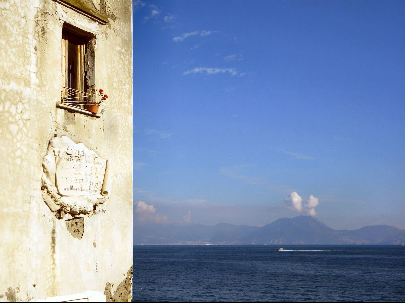 Napoli - Italia. A Marechiaro ce sta 'na fenesta... License on Flickr (2011-02-09): CC-BY-SA-2.0 Flickr tags: napoli, naples, marechiao, finestra, sea, mare, window, landscape